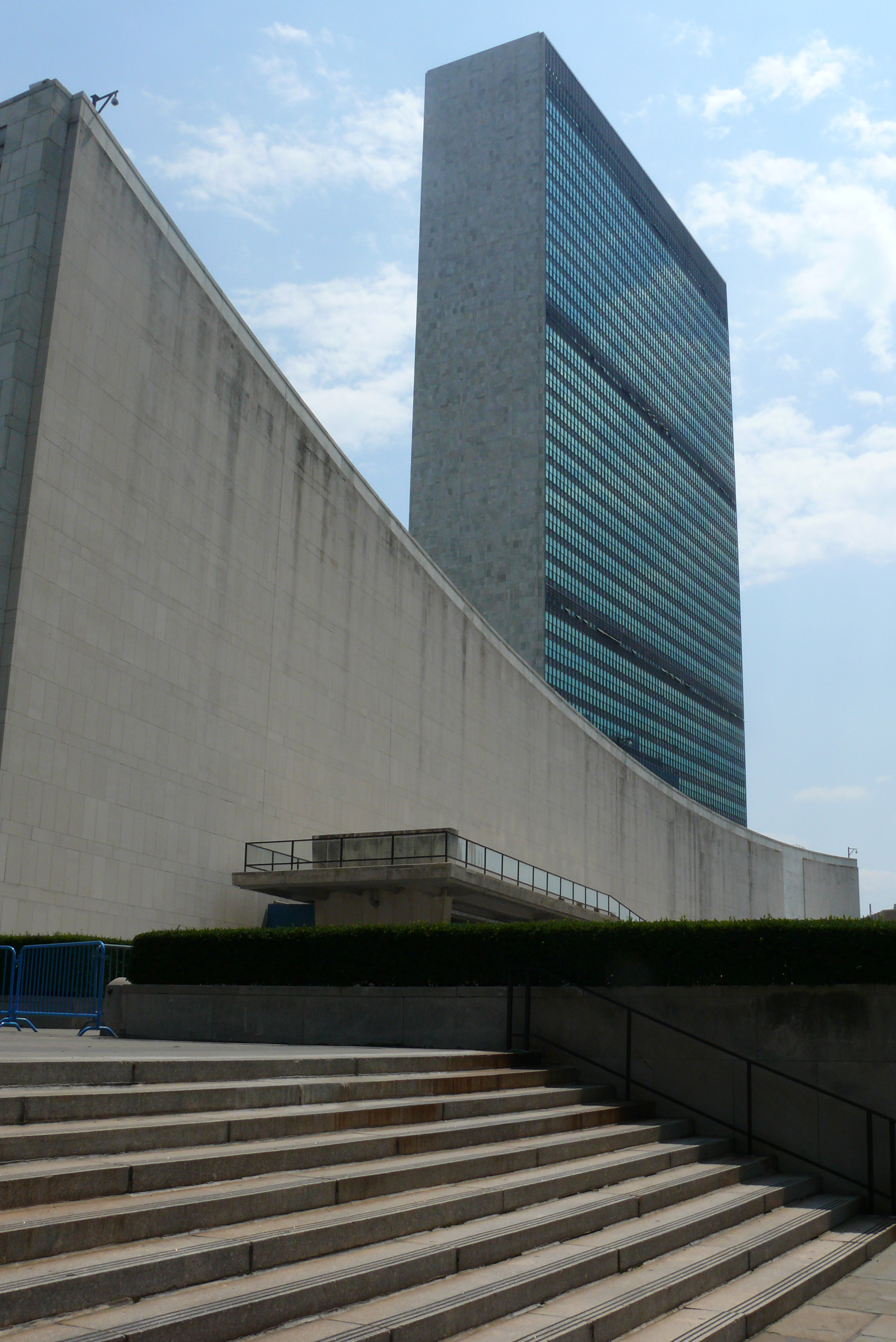 The United Nations Headquarters is a distinctive complex in New York City that has served as the official headquarters of the United Nations since its completion in 1950.